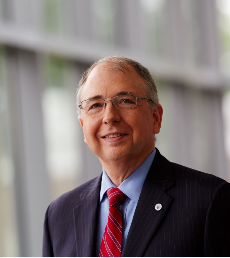 Head-shot photo of Alex Molinaroli, President and CEO of Johnson Controls, taken in 2013